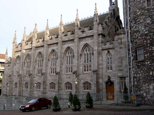 Image of Dublin Castle's Chapel Royal. Photo by Jtdirl.